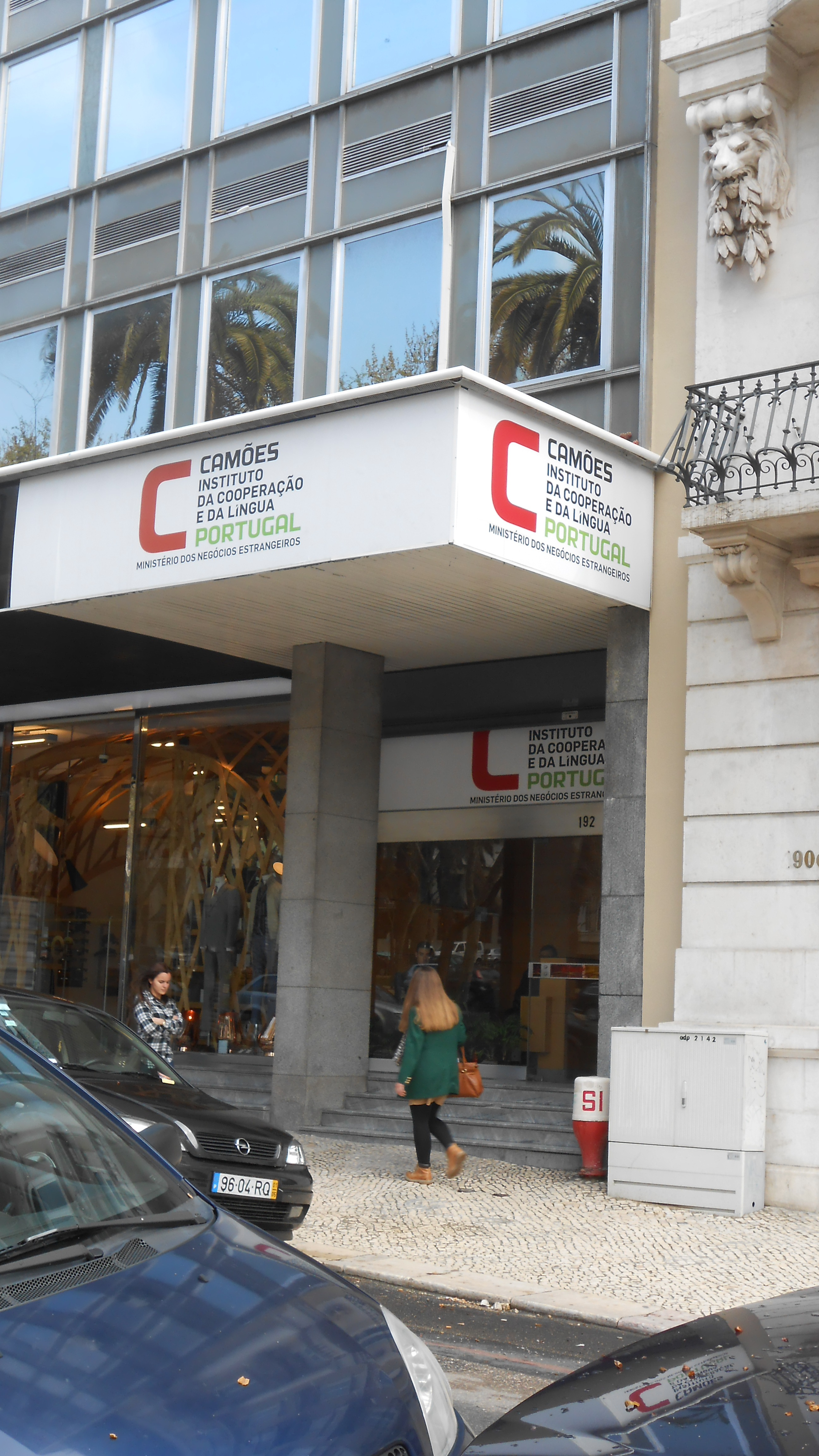 Entry to the Instituto Camões on the Avenida da Liberdade in Lisbon.